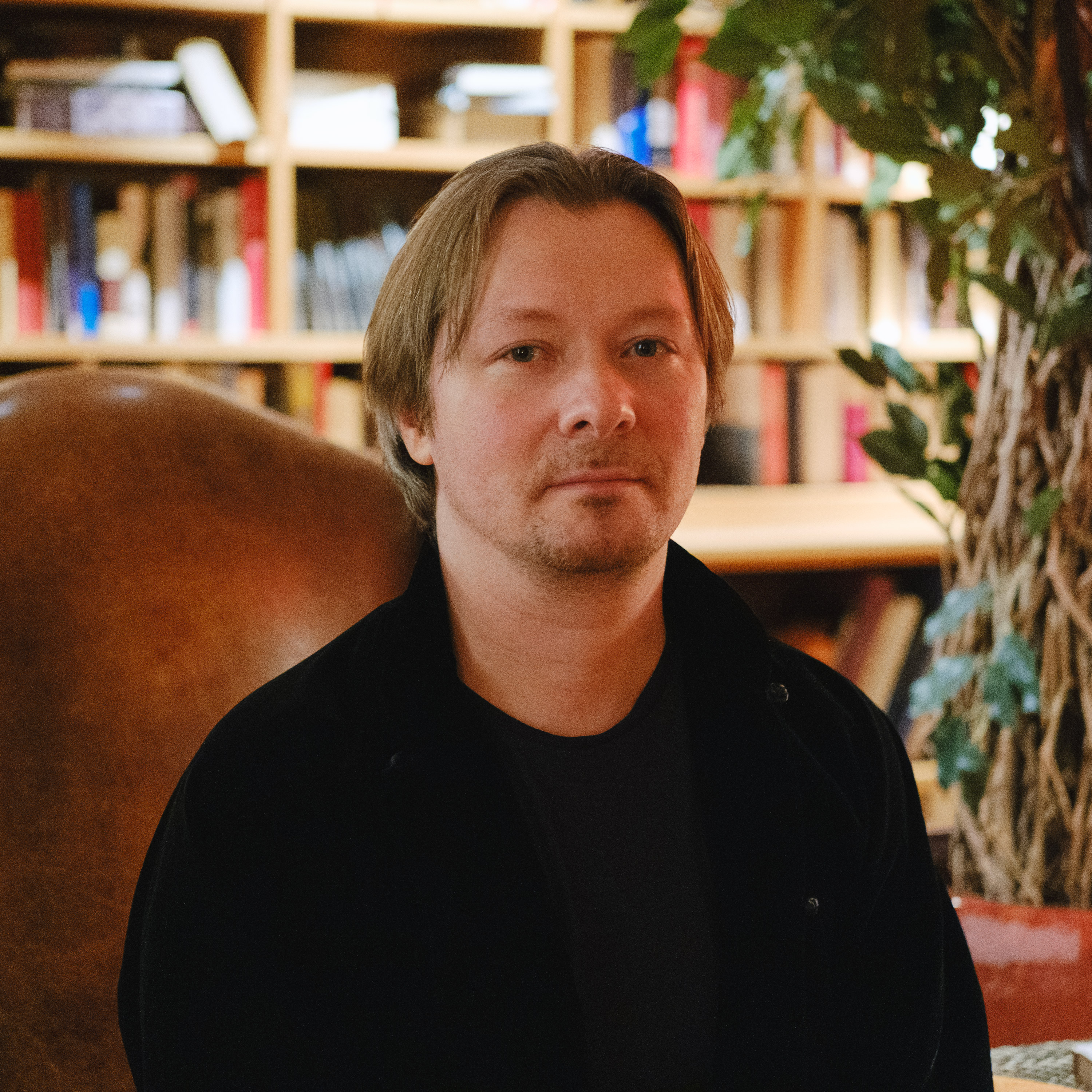 The famous trumpet player Sergei Nakariakov at Schloss Elmau in Germany in 2019.